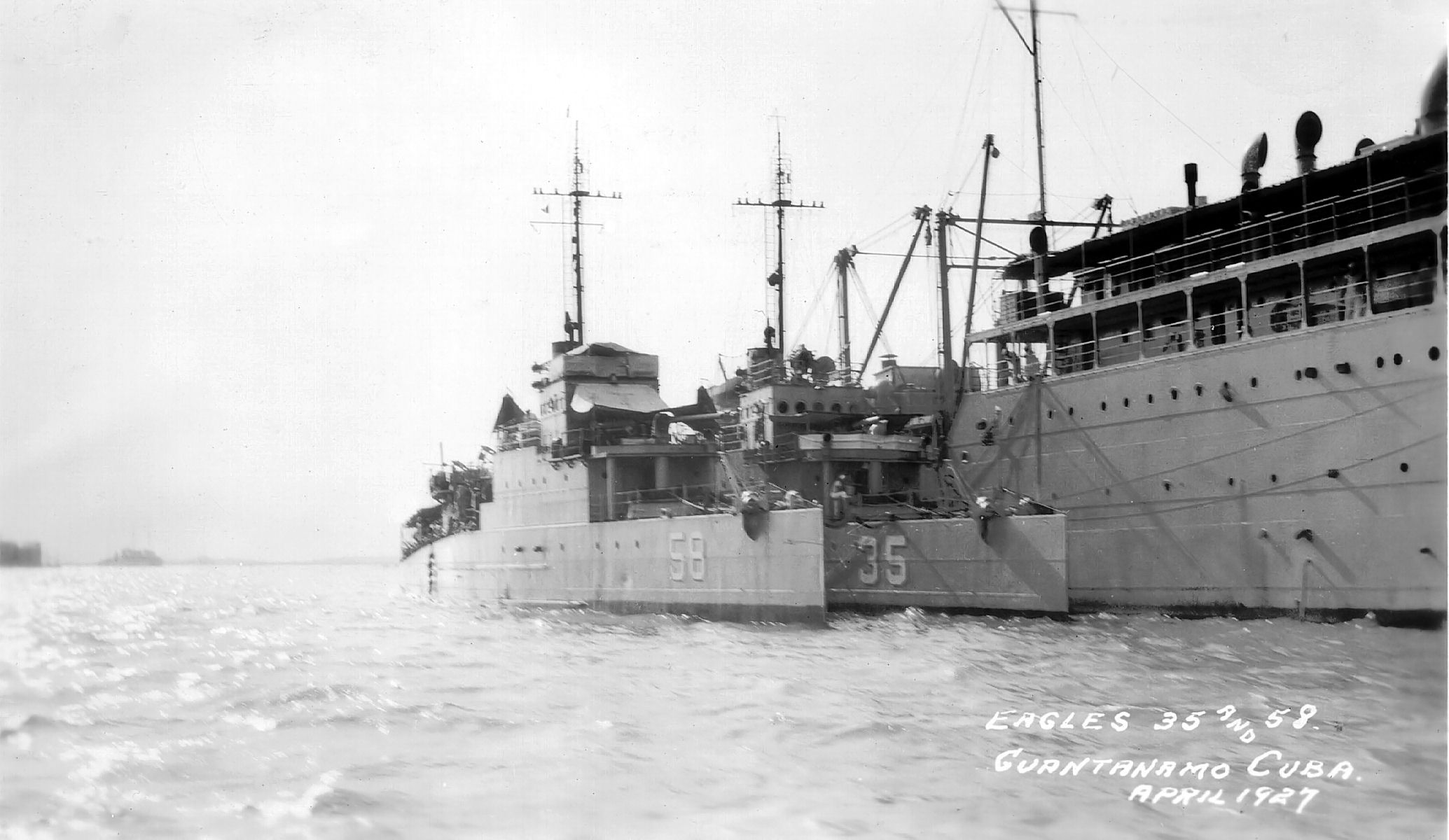 Eagles 35 and 58, Guantanamo Bay Naval Base, Cuba, April 1927. Larger ship is likely the USS Argonne.